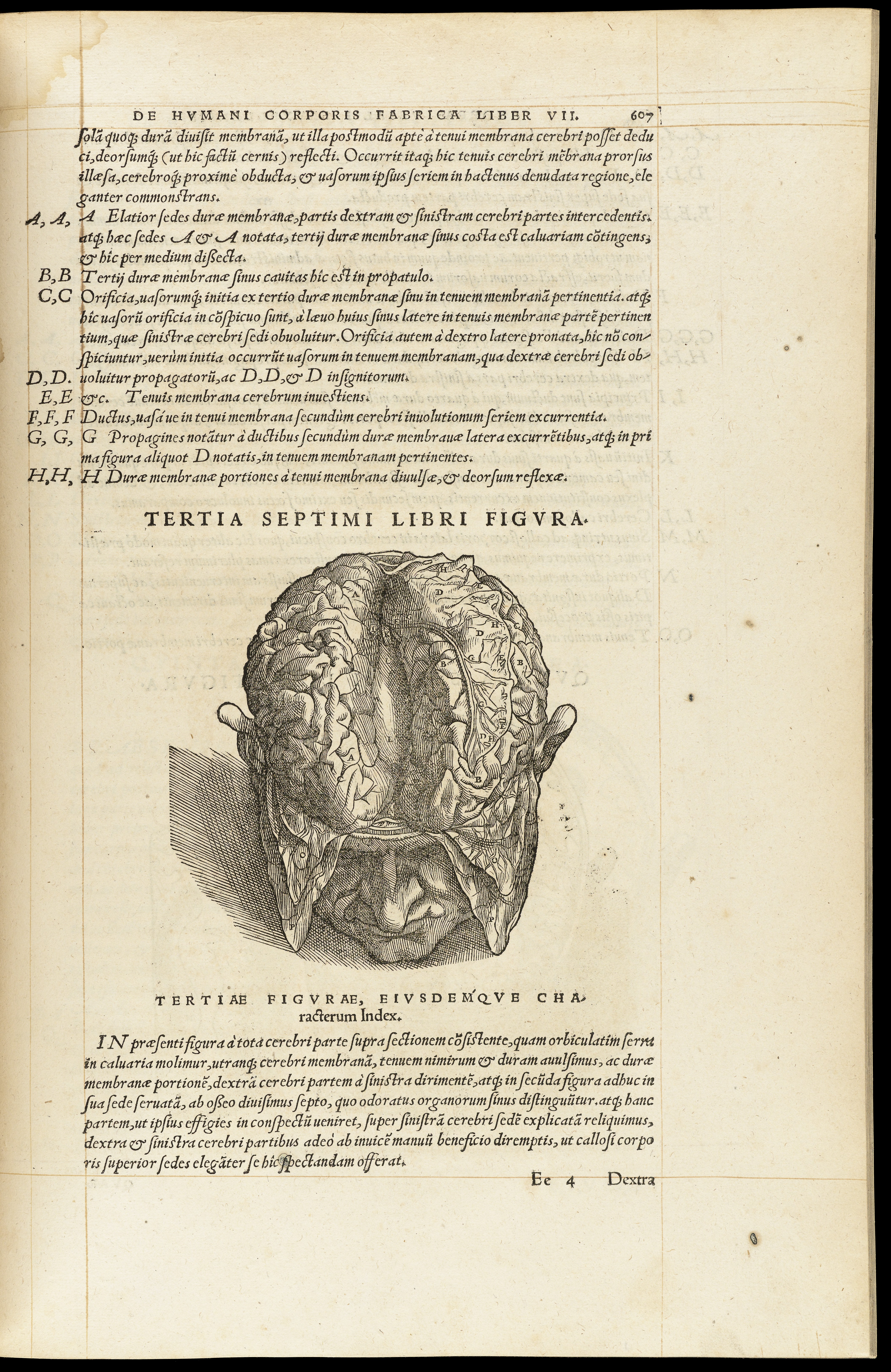 Andreae Vesalii Bruxellensis, scholae medicorum Patauinae professoris De humani corporis fabrica libri septem ... Rare Books Keywords: Anatomy